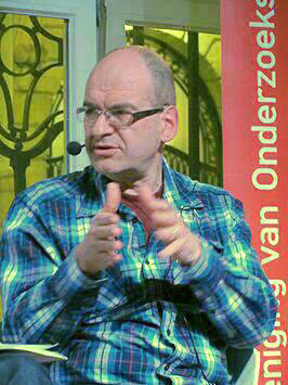 Paul van Buitenen (The Netherlands, Breda, May 28, 1957) is a former member of the European Parliament. Previously he worked as a civil servant at the European Commission. As a whistleblower, he played a major role in 1999 at the fall of the European Commission.